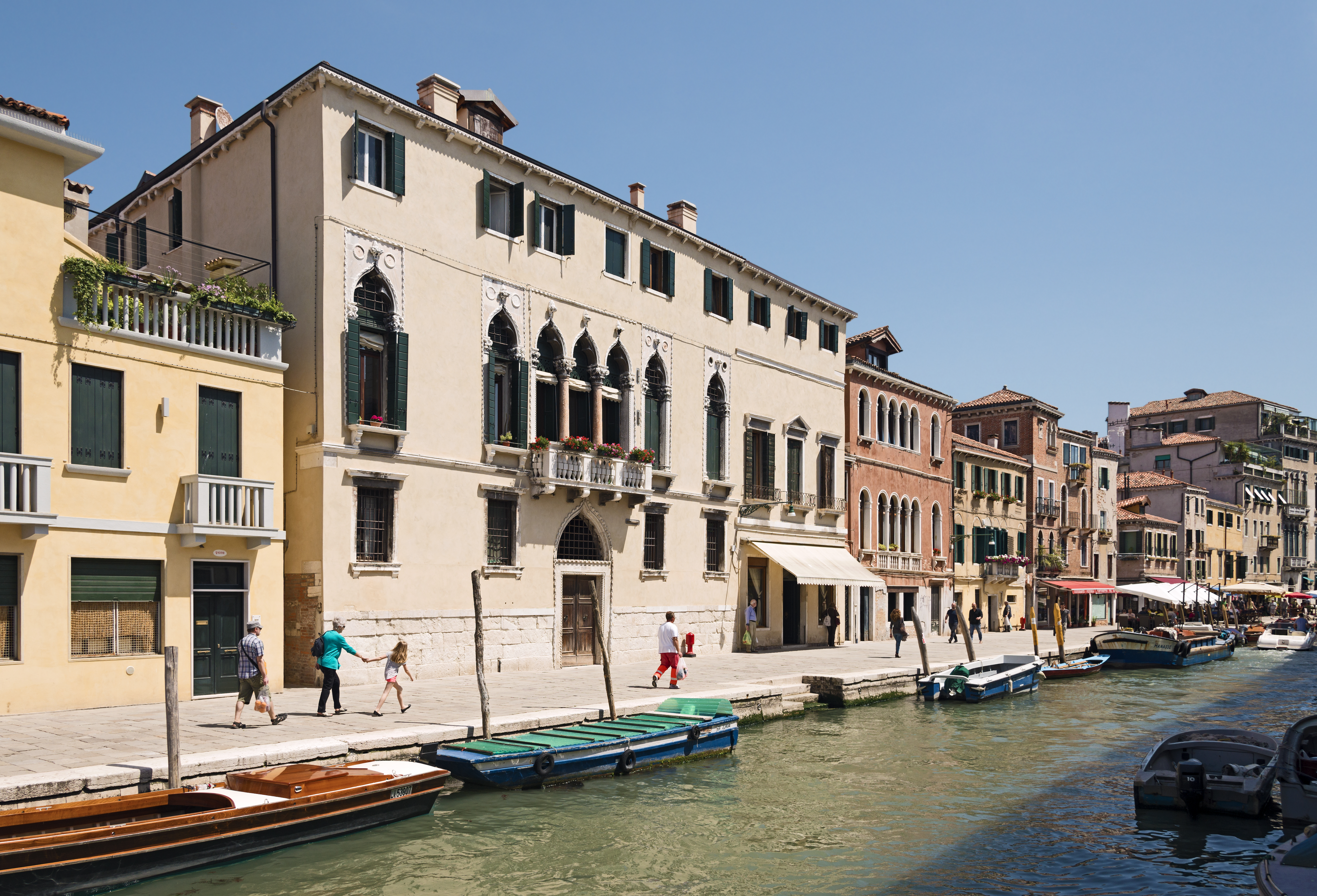 Palazzo Longo in venice - Facade on rio della misericordia.